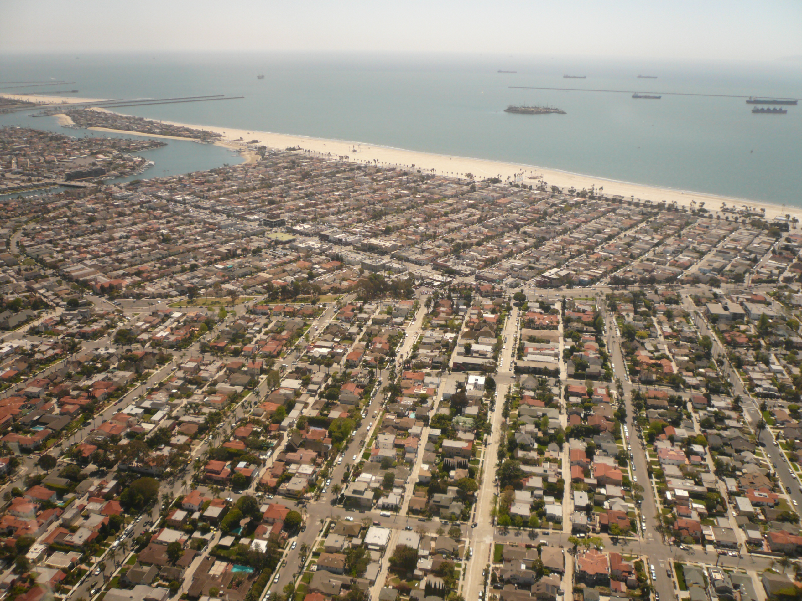 The Belmont Shore neighborhood of Long Beach, California in the upper-middle of this image, with the Belmont Heights neighborhood in the lower foreground, looking southeast.